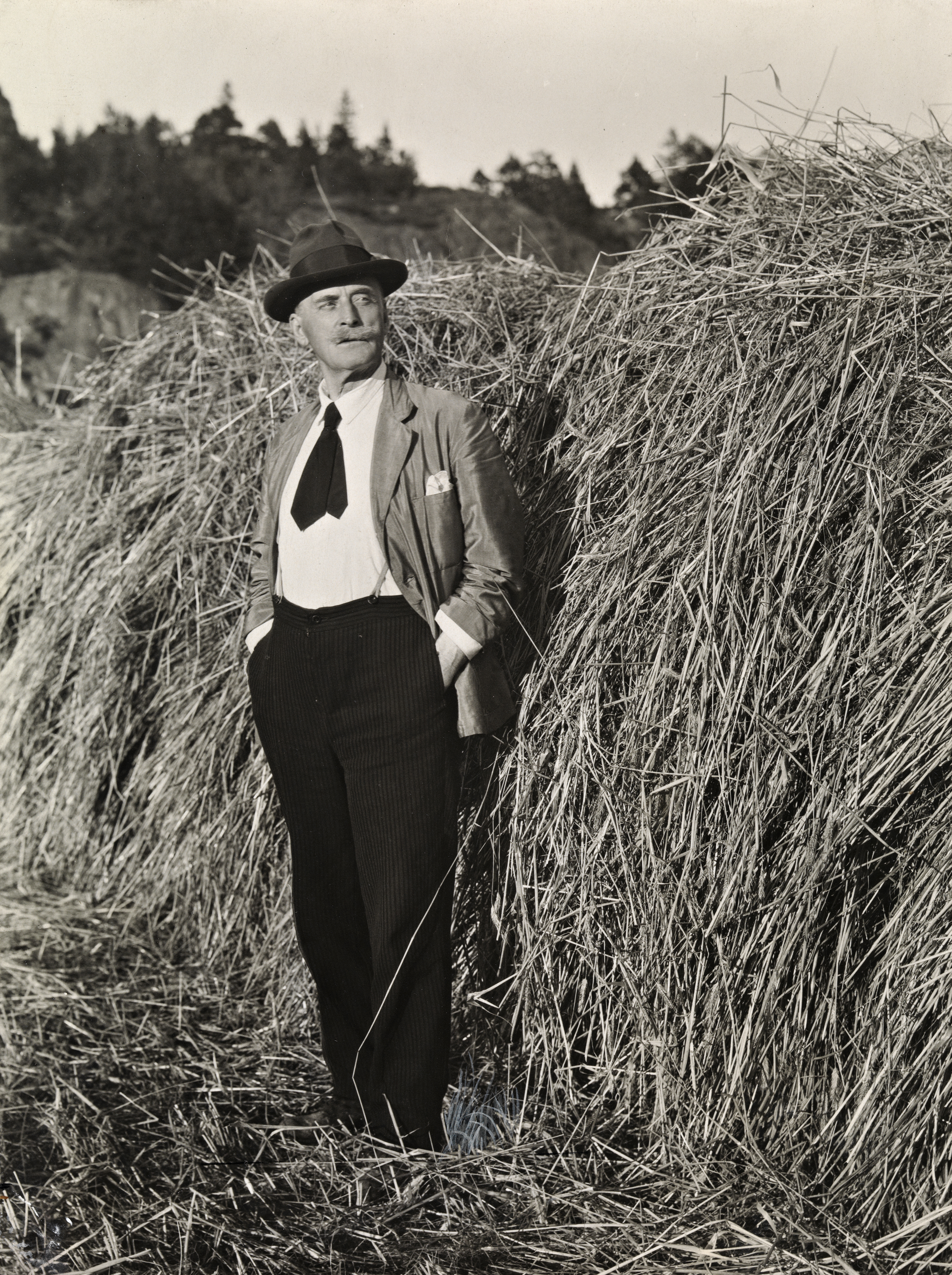 Portrait of Knut Hamsun (1859–1952) in front of straw at Aust-Agder, Grimstad, Nørholm, 1930. Photo taken by Anders Beer Wilse.